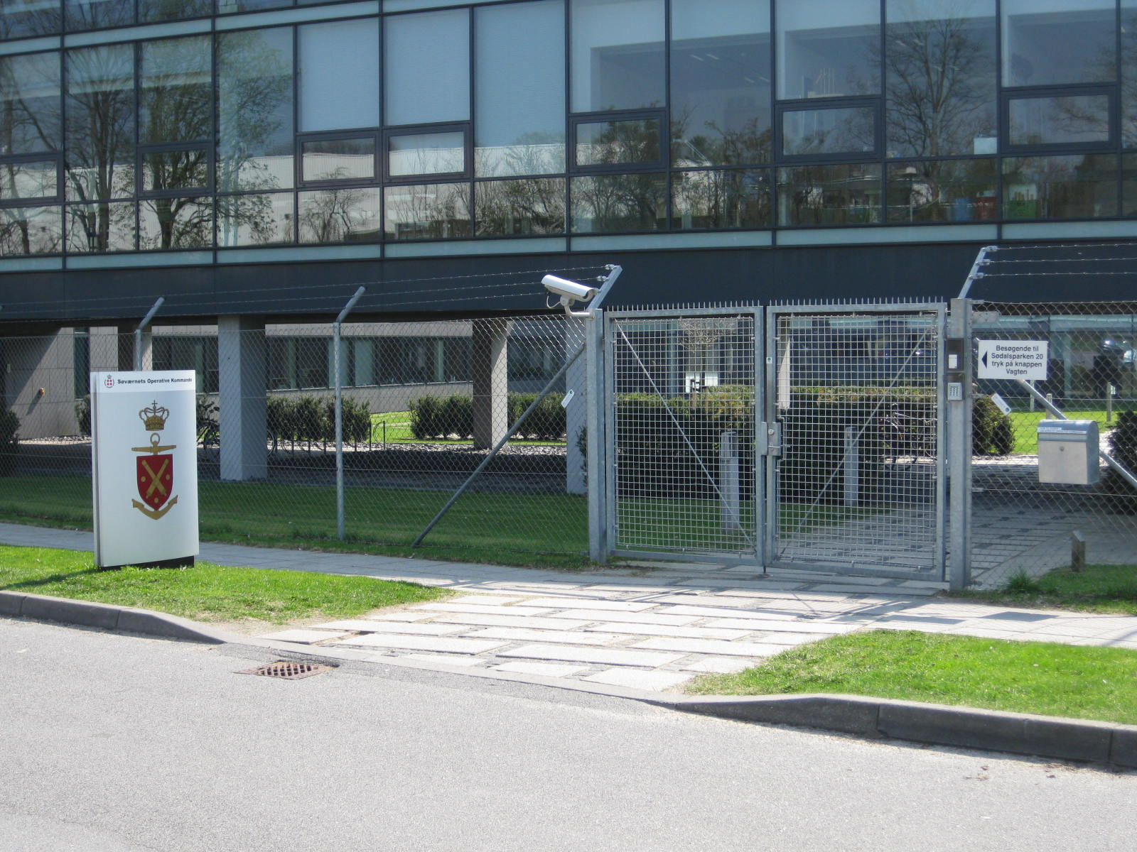 Entrance to Admiral Danish Fleet